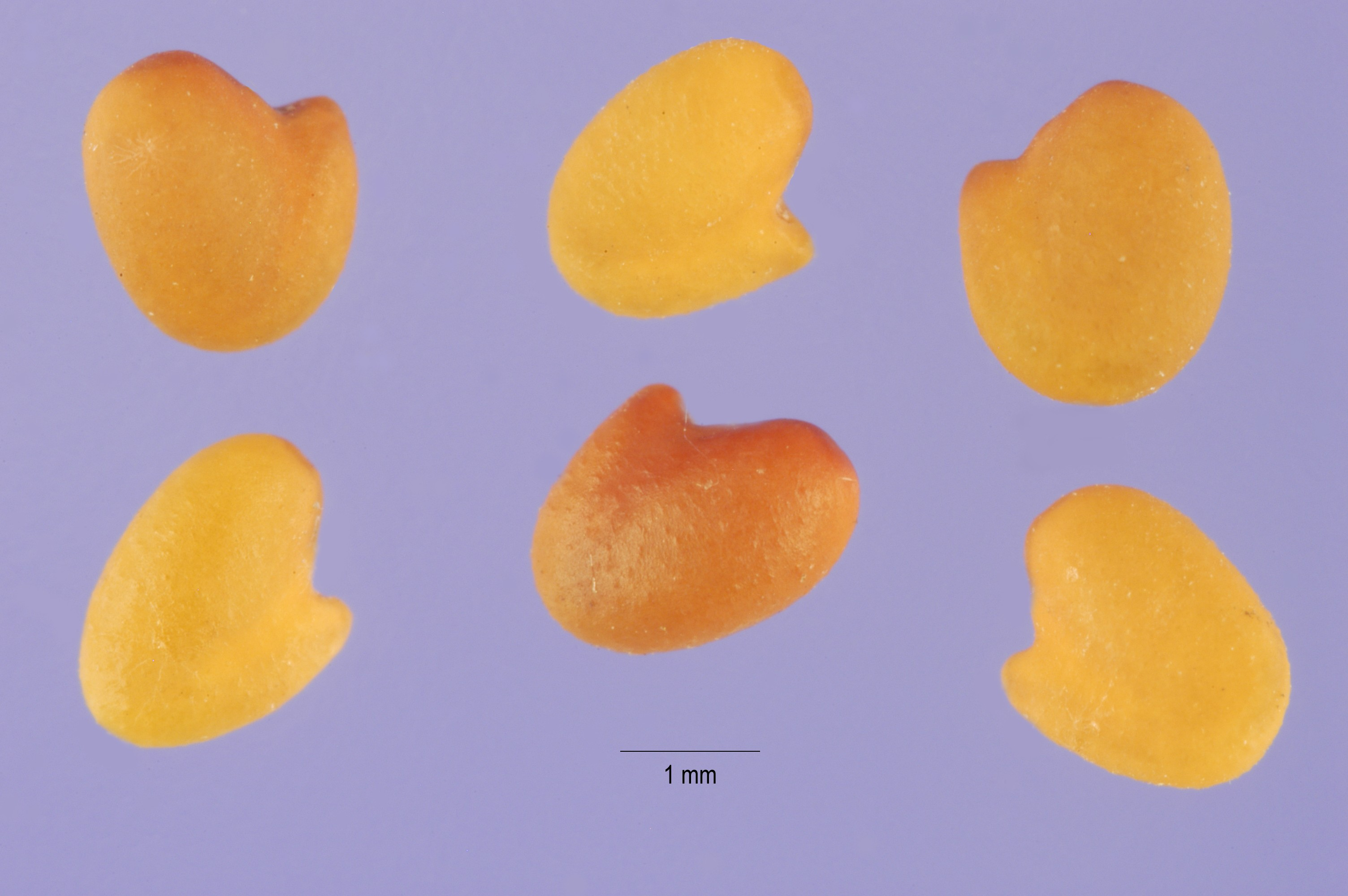 Melilotus altissimus seeds